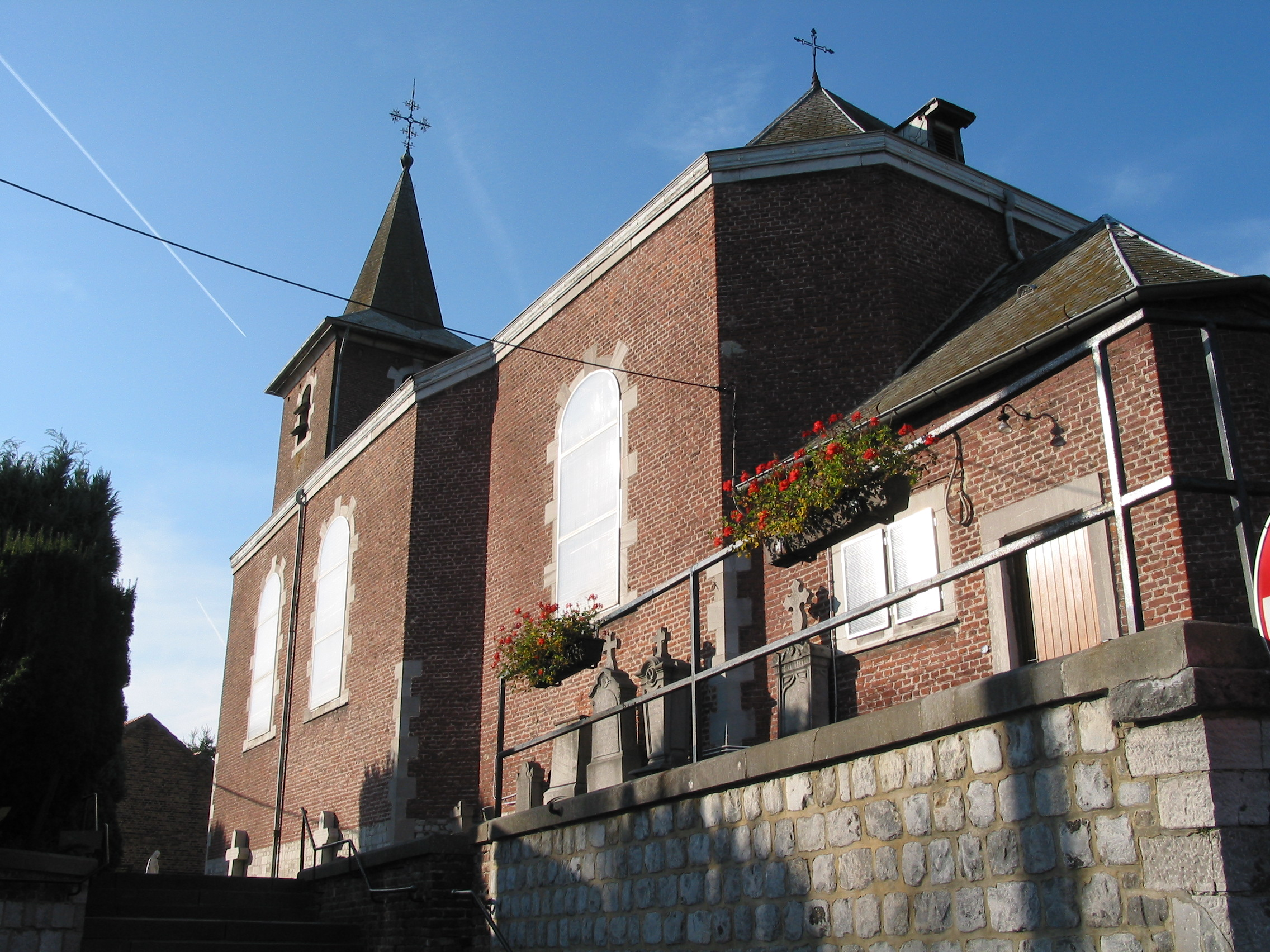 Geer (Belgium), the St. Hubert church.